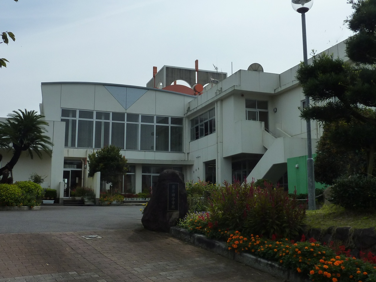 The Imuta Elementary School (Satsumasendai City, Kagoshima, Japan)